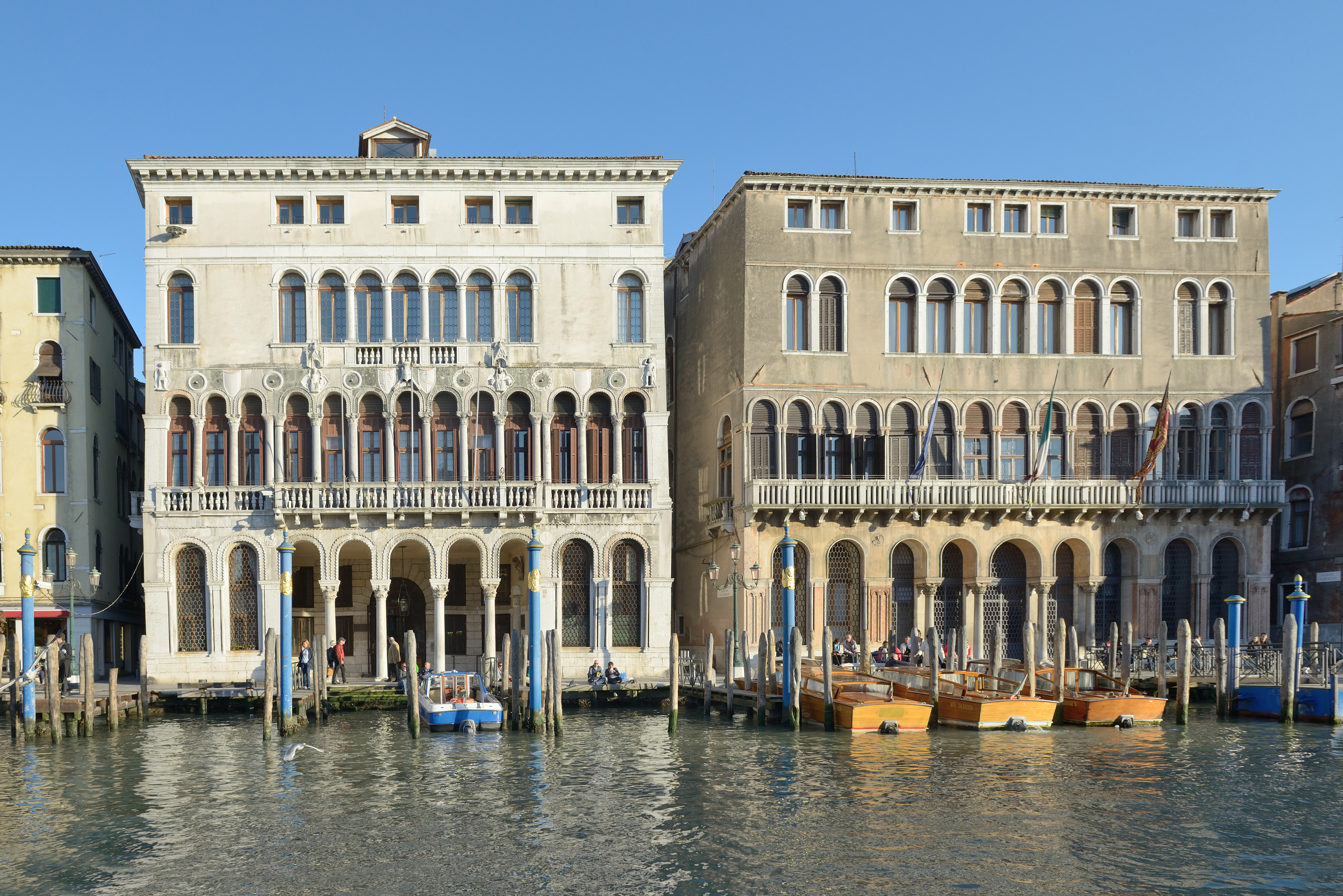 Palace Ca' Loredan and Ca' Farsetti on the right in Venice. Facade on Grand Canal.